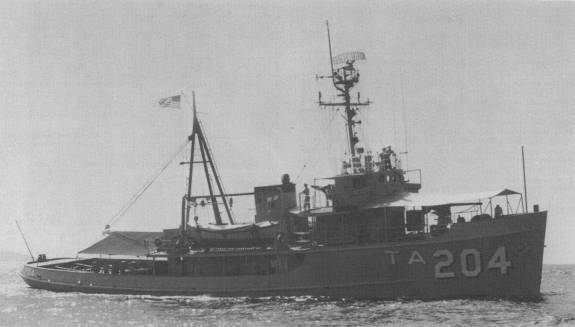 United States Navy auxiliary ocean tug :en:USS Wandank (ATA-204)}USS Wandank (ATA-204)| in 1966-1967.